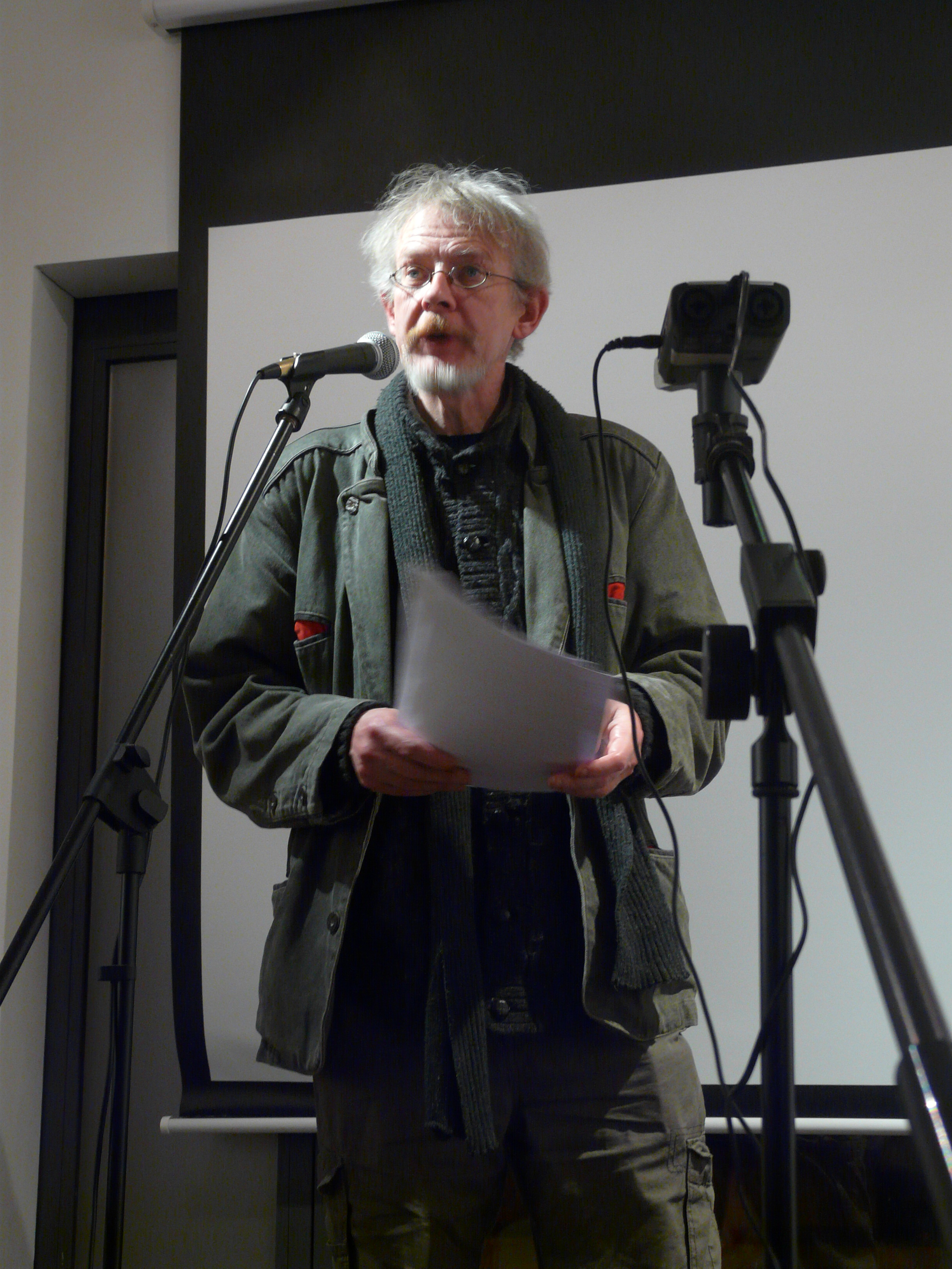 Frank Key, "An Evening of Lugubrious Music and Lopsided Prose", Woolfson & Tay bookshop, Bermondsey, London, 19 November 2011